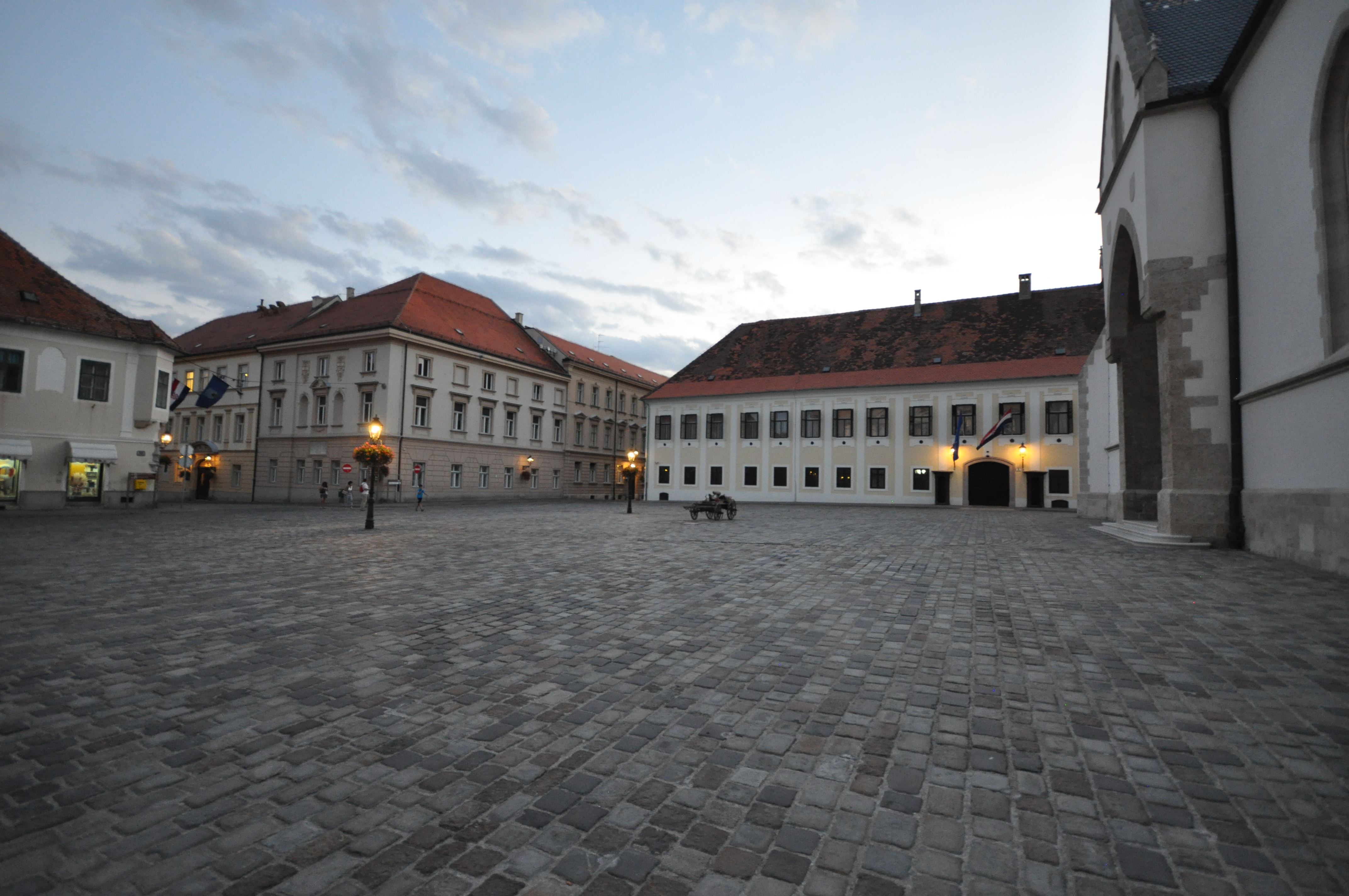 St. Mark's Square (Croatian: Trg svetog Marka) is a square located in the old part of Zagreb, Croatia. In the center of square is located St. Mark's Church. The square also sports important governmental buildings: Banski dvori (the seat of the Government of Croatia), Croatian Parliament (Croatian: Hrvatski sabor) and Constitutional Court of Croatia. On the corner of St. Mark's Square and the Street of Ćiril and Metod is the Old City Hall, where the Zagreb City Council held its sessions. In 2006 the square has undergone through renovation project. Since August 2005, the Government forbid any form of protests on St. Mark's square which caused many controversies in Croatian's "civil society". This ban was partially lifted in 2012. The square is also the site of the inaugurations of Croatia's presidents. Franjo Tuđman took his oath as President of the Republic in 1992 and 1997, Stjepan Mesić in 2000 and 2005 and Ivo Josipović in 2010